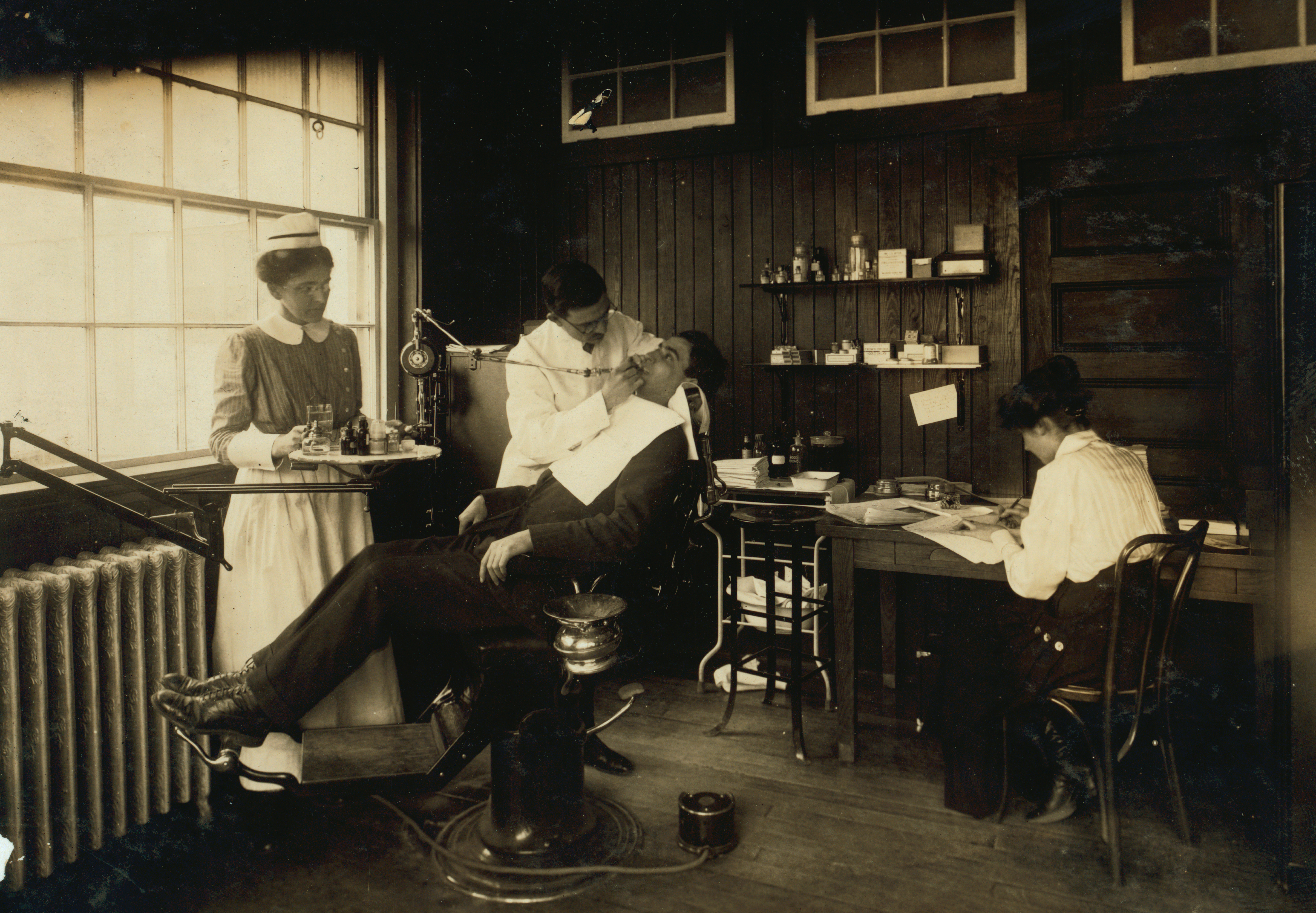 Dental work in Hospital. Hood Rubber Co., Cambridge. Location: Cambridge, Massachusetts, 1917.